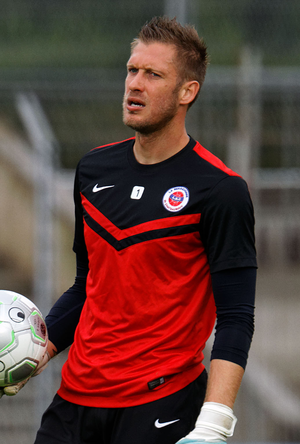 Landry Bonnefoi, Créteil vs Châteauroux, 8th August 2014.